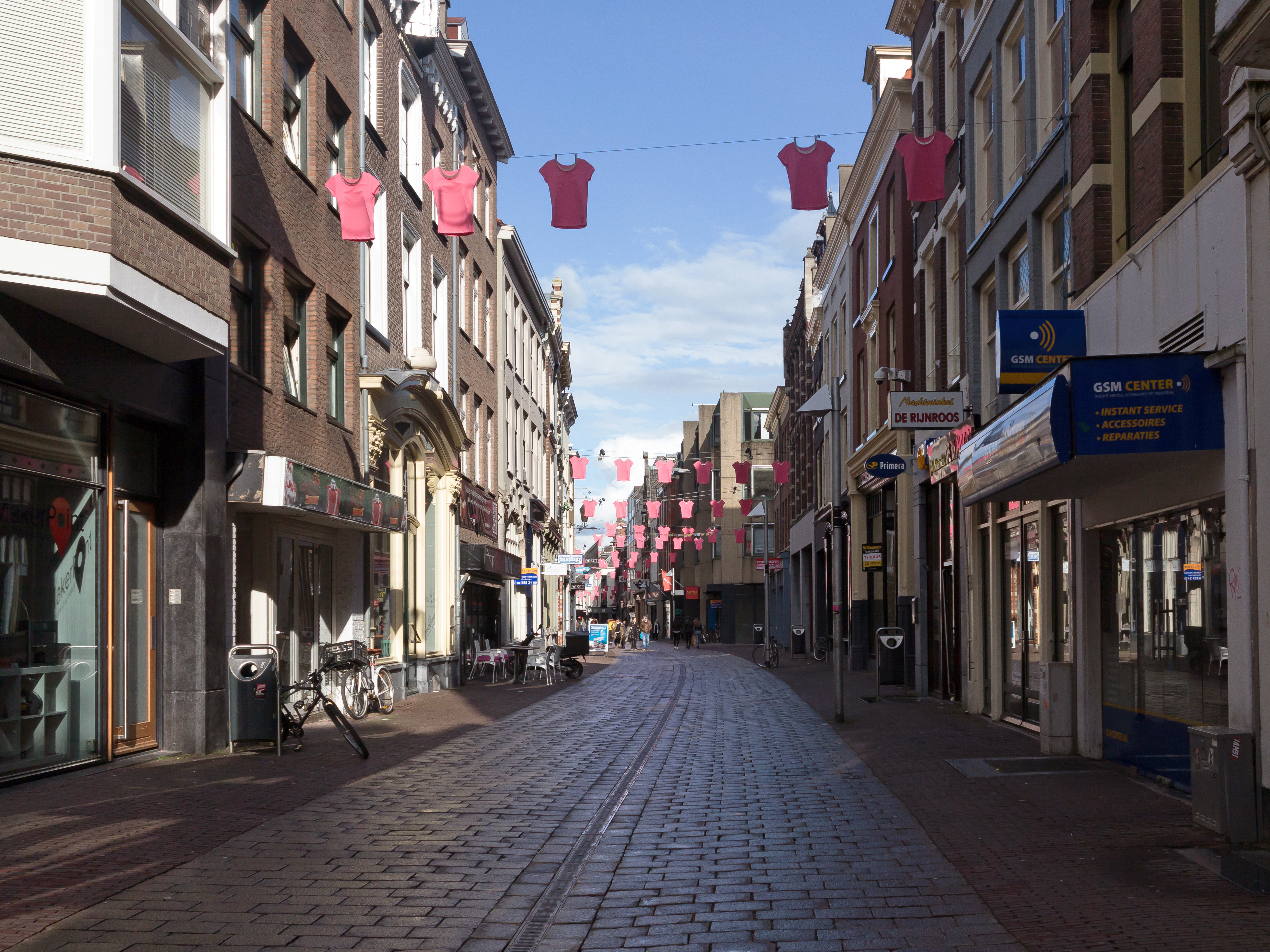 Arnhem, street view de Rijnstraat for Giro d'Italia